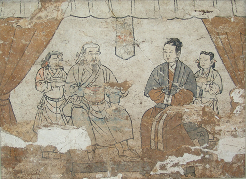 Shazishan Tomb Fresco, Yuan Dynasty, Chifeng Museum 119X163 cm